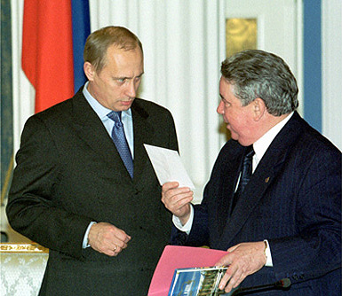 THE KREMLIN, MOSCOW. President Putin meeting with Russian businessmen. President Putin with Gazprom CEO Rem Vyakhirev.